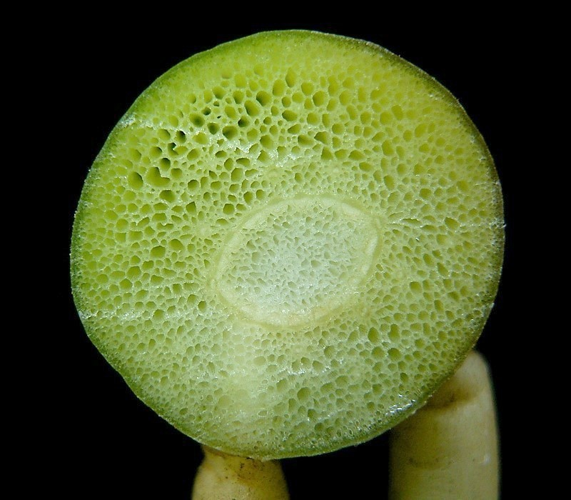 Menyanthes trifoliata